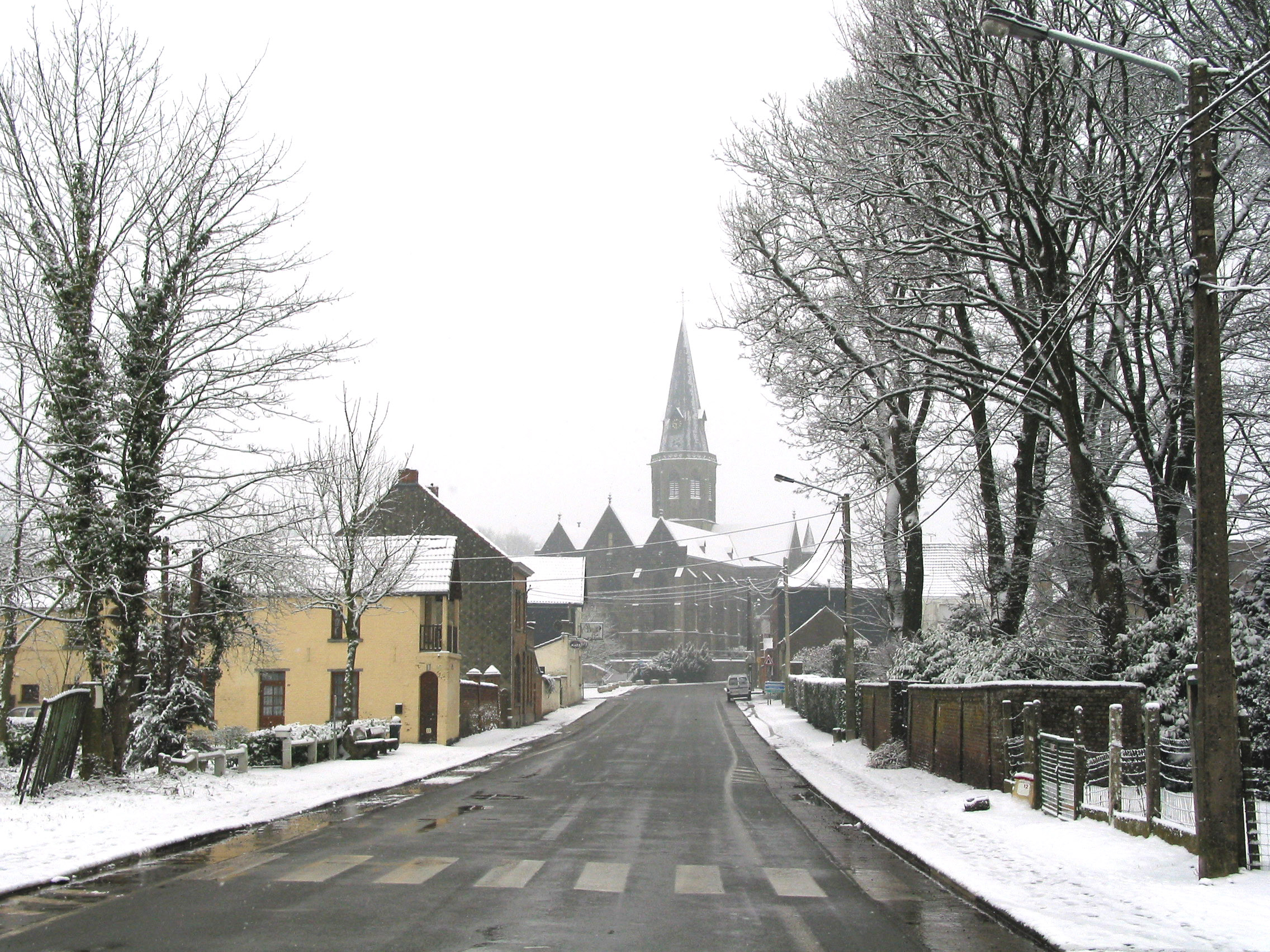 Le Roeulx (Belgium), Chaussée de Mons.